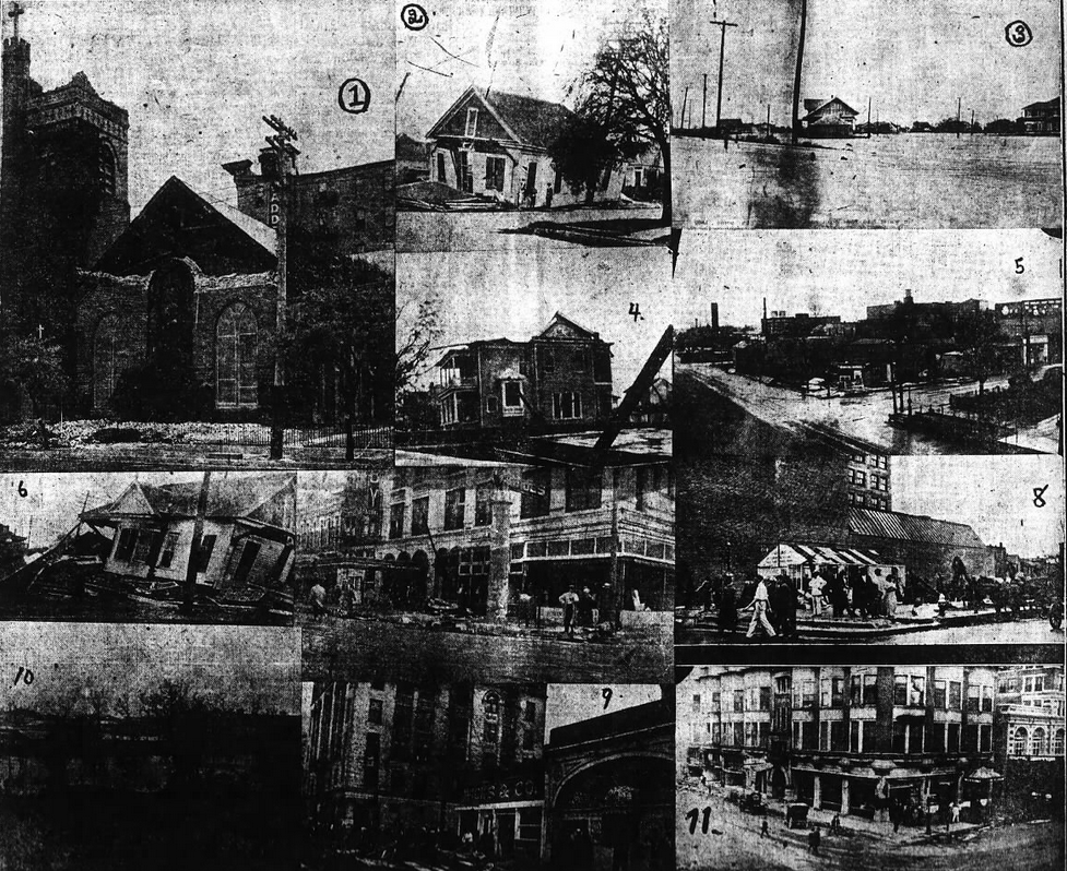 A collage of damage photos from Houston, Texas, in the aftermath of the 1915 Galveston hurricane. The Houston Post captioned this image with the following eleven captions, corresponding to the numbers inscribed on the individual photos: Ruined Episcopal church and tower on Texas avenue and Fannin street Bollfrass Pharmacy at the corner of McGowan and Crawford which collapsed Tuesday morning. Lake formed by railroad tracks at Montrose; water entering houses Louis Phelps home, 3805 Main Street. Roof lifted off and interior shattered Fence enclosing botanical gardens at Texas and Louisiana entirely torn down Side and rear portions of collapsed buildings Shattered windows and fallen signs of shops on Texas avenue near Travis street Hot house of Gulf Florist Company at Main and Rusk, with skylights removed Store at corner of Main and Texas which suffered severy [sic]. Shack at Texas and Smith which collapsed and fell into the bayou Broken signs and debris from buildings at corner of Texas and Travis